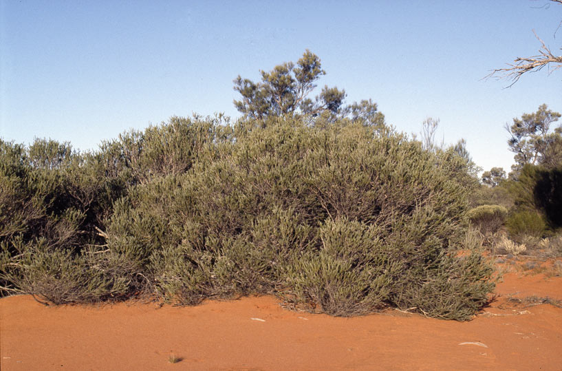 Melaleuca apostibe habit